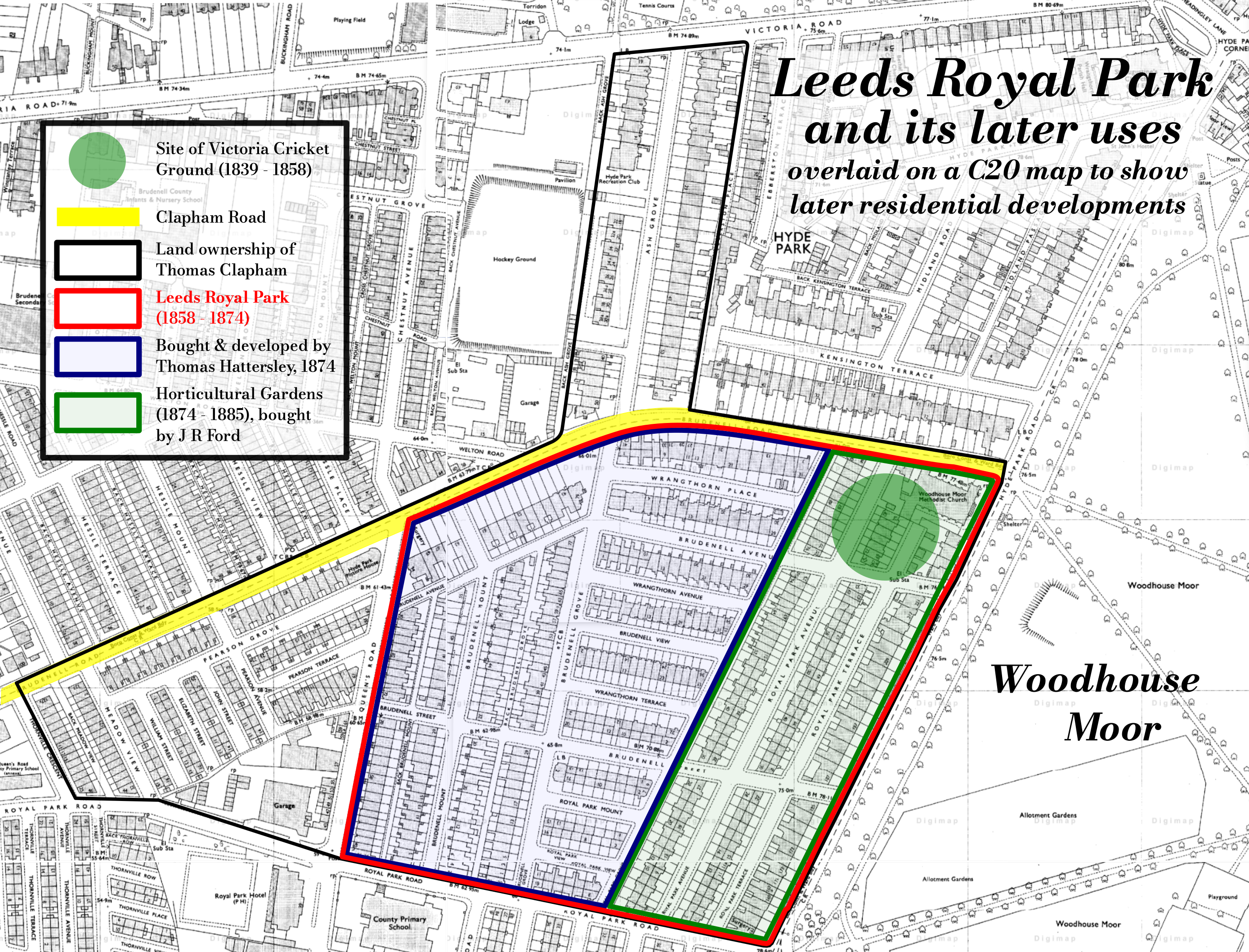 Leeds Royal Park and its later uses, overlaid on a C20 map to show later residential developments